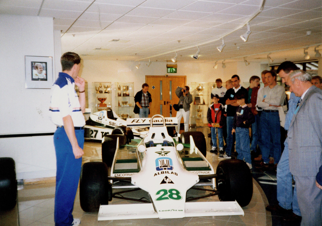 1979 Clay Regazzoni's FW07. Author, Kev Swindells taken summer 1996 at the Williams F1 factory/museum. Creative Commons Attribution-Share Alike 2.0 UK: England & Wales License.